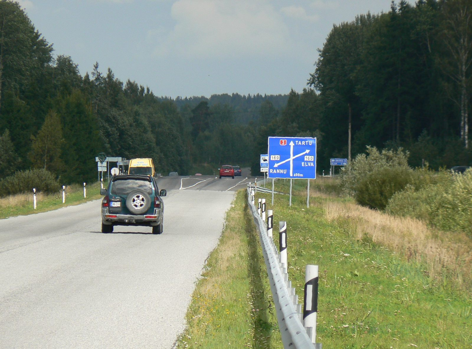 The Jõhvi-Tartu-Valga road crosses with the Elva-Rannu road